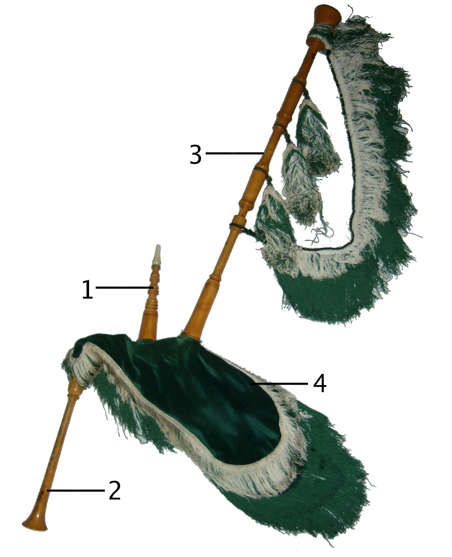 Asturian pipe (morphology)